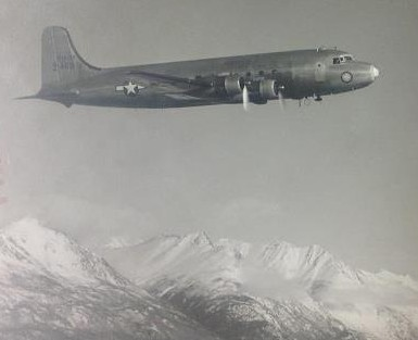 Aircraft 42-72469 in 1946, four years before disappearance